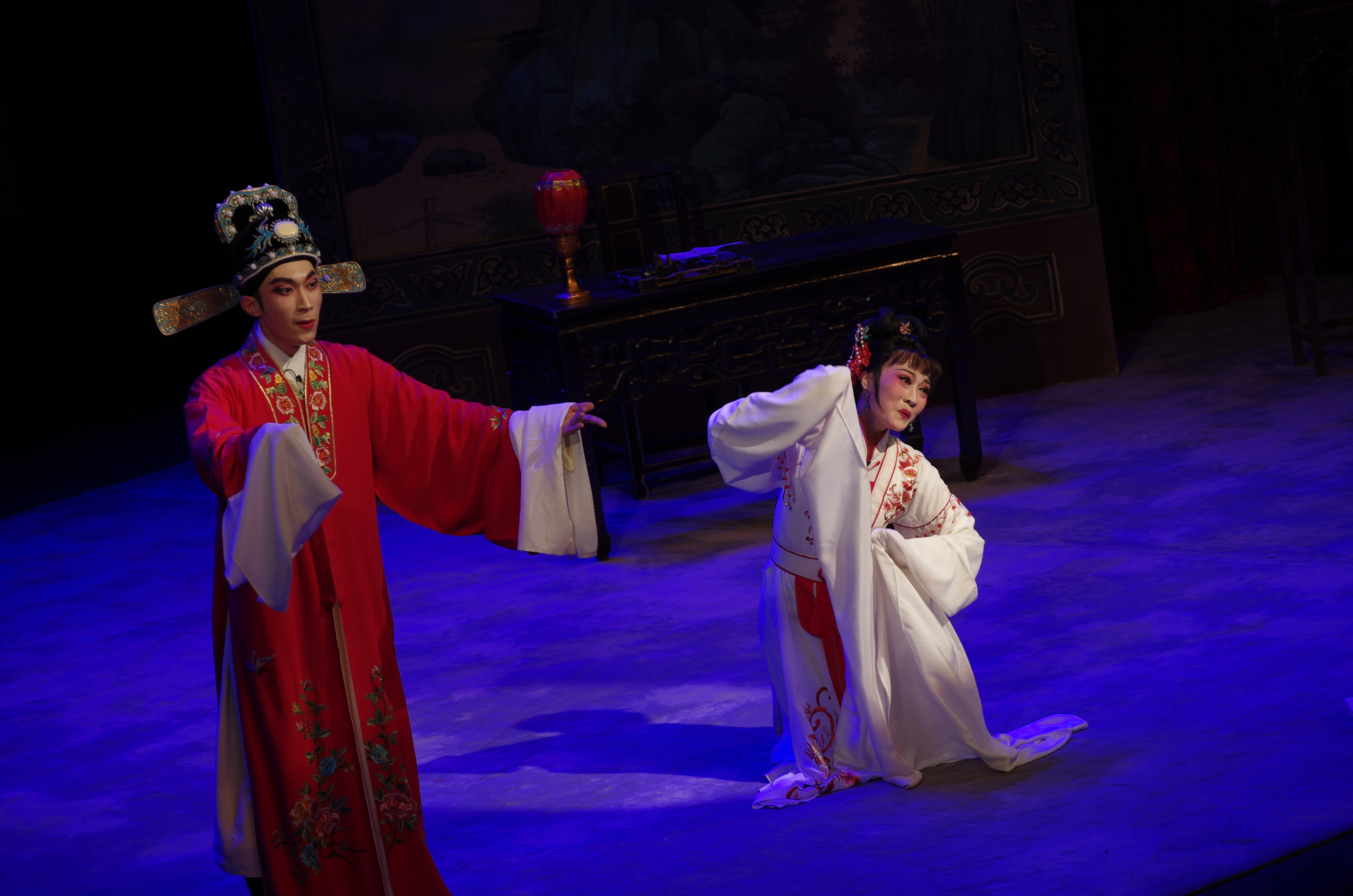 A Shaoxing opera performance of Wang Kui Betrays Guiying, by Shanghai Theatre Academy students in Tianchan Theatre, Shanghai, China